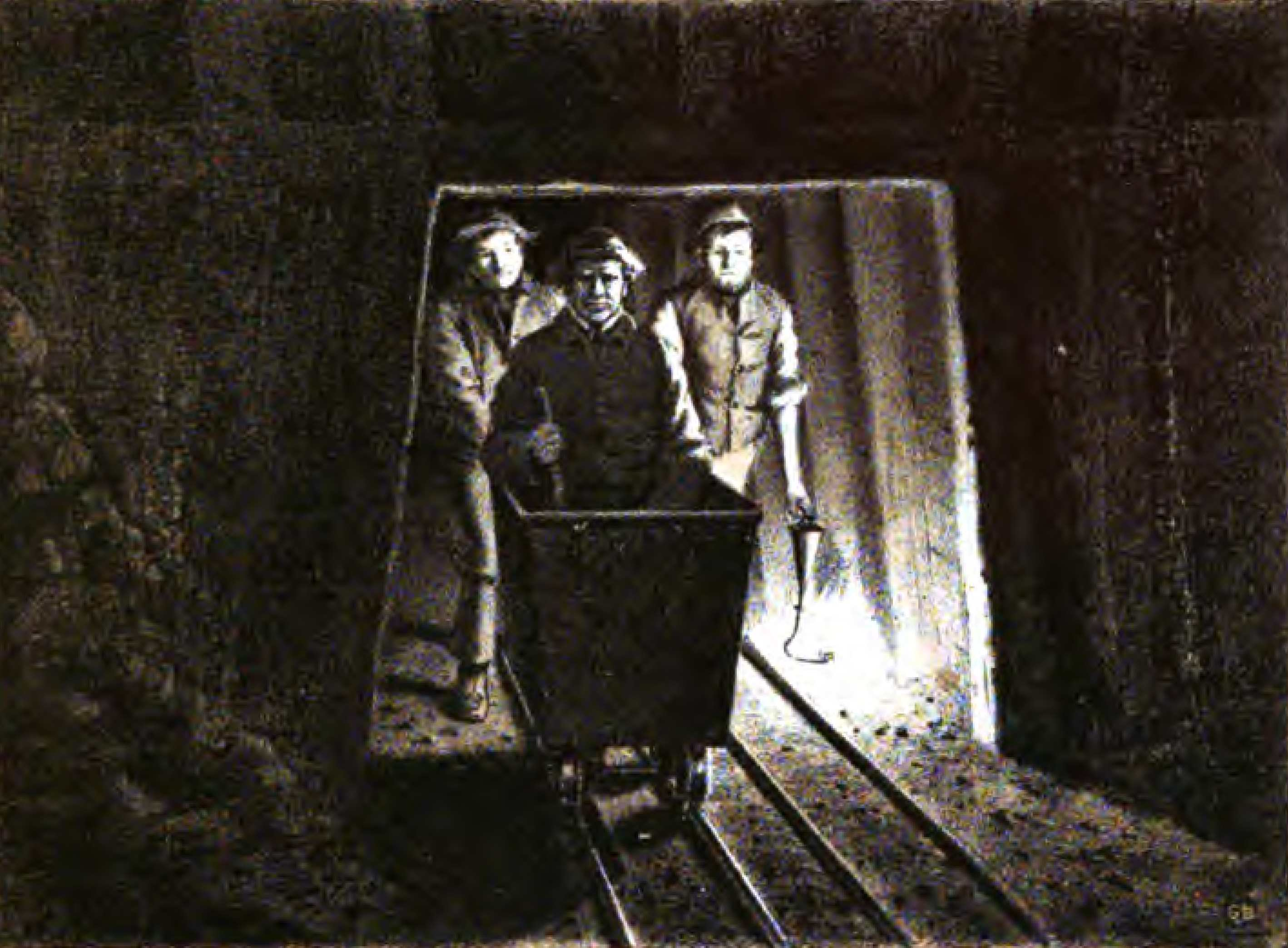 Sir John Hawshaw inspecting the works (of the Severn Tunnel)